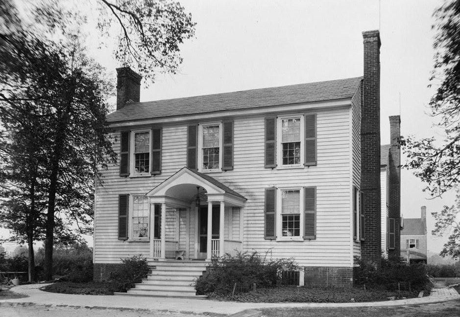 Keswick, Main House (second), State Route 711 vicinity, Huguenot vicinity (Powhatan County, Virginia) cropped, BS VA,73-HUG.V,2-2 This file comes from the Historic American Buildings Survey (HABS), Historic American Engineering Record (HAER) or Historic American Landscapes Survey (HALS). These are programs of the National Park Service established for the purpose of documenting historic places. Records consist of measured drawings, archival photographs, and written reports. When reusing please credit: Library of Congress, Prints & Photographs Division, VA-164 This tag does not indicate the copyright status of the attached work. A normal copyright tag is still required. See Commons:Licensing for more information. This work is in the public domain in the United States because it is a work prepared by an officer or employee of the United States Government as part of that person’s official duties under the terms of Title 17, Chapter 1, Section 105 of the US Code. See Copyright. Note: This only applies to original works of the Federal Government and not to the work of any individual U.S. state, territory, commonwealth, county, municipality, or any other subdivision. This template also does not apply to postage stamp designs published by the United States Postal Service since 1978. (See § 313.6(C)(1) of Compendium of U.S. Copyright Office Practices). It also does not apply to certain US coins; see The US Mint Terms of Use. This file has been identified as being free of known restrictions under copyright law, including all related and neighboring rights.